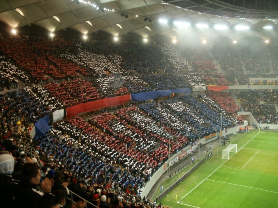 Peluza Nord choreography (1947). Steaua Bucharest v. AEK Larnaca (EL, 50.051 spectators)